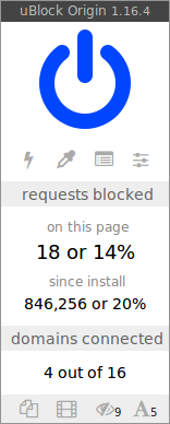 uBlock Origin